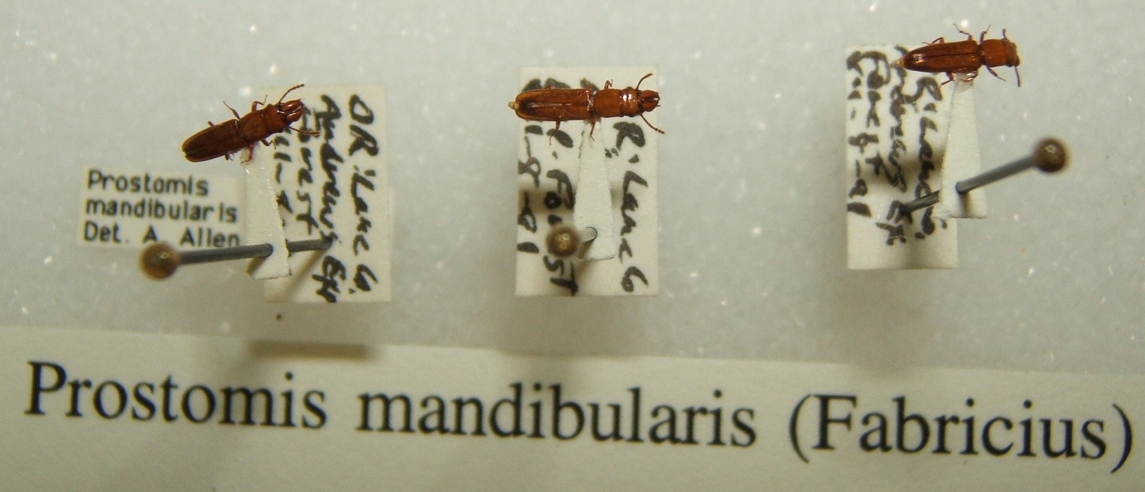 Prostomis mandibularis adult taken by Shawn Hanrahan at the Texas A&M University Insect Collection in College Station, Texas.